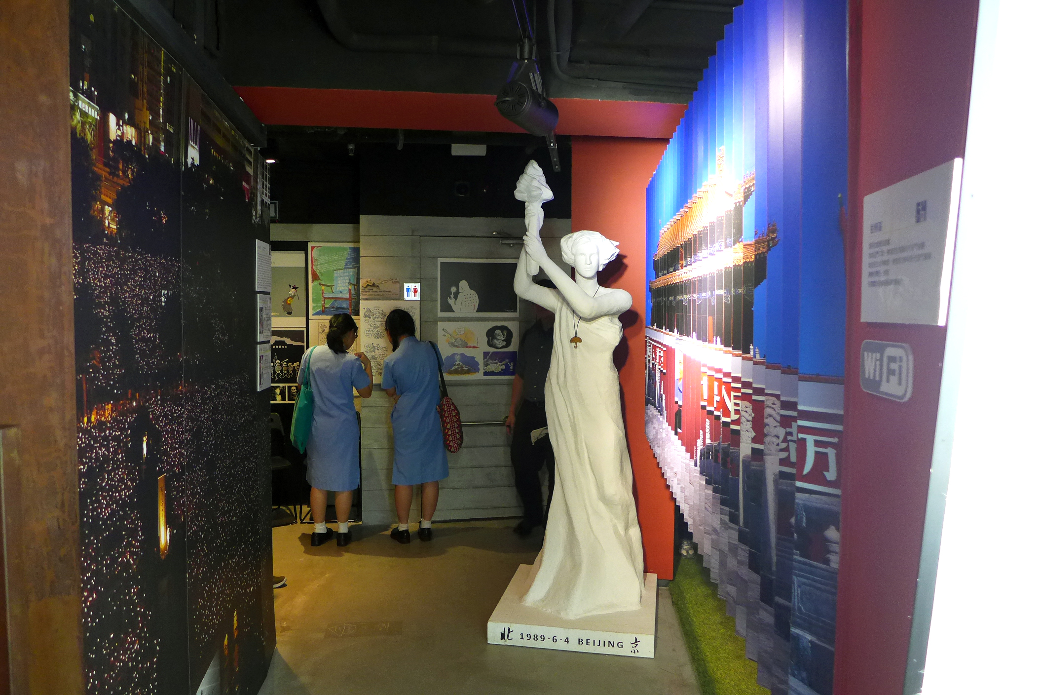 June 4th Museum Photo taking area